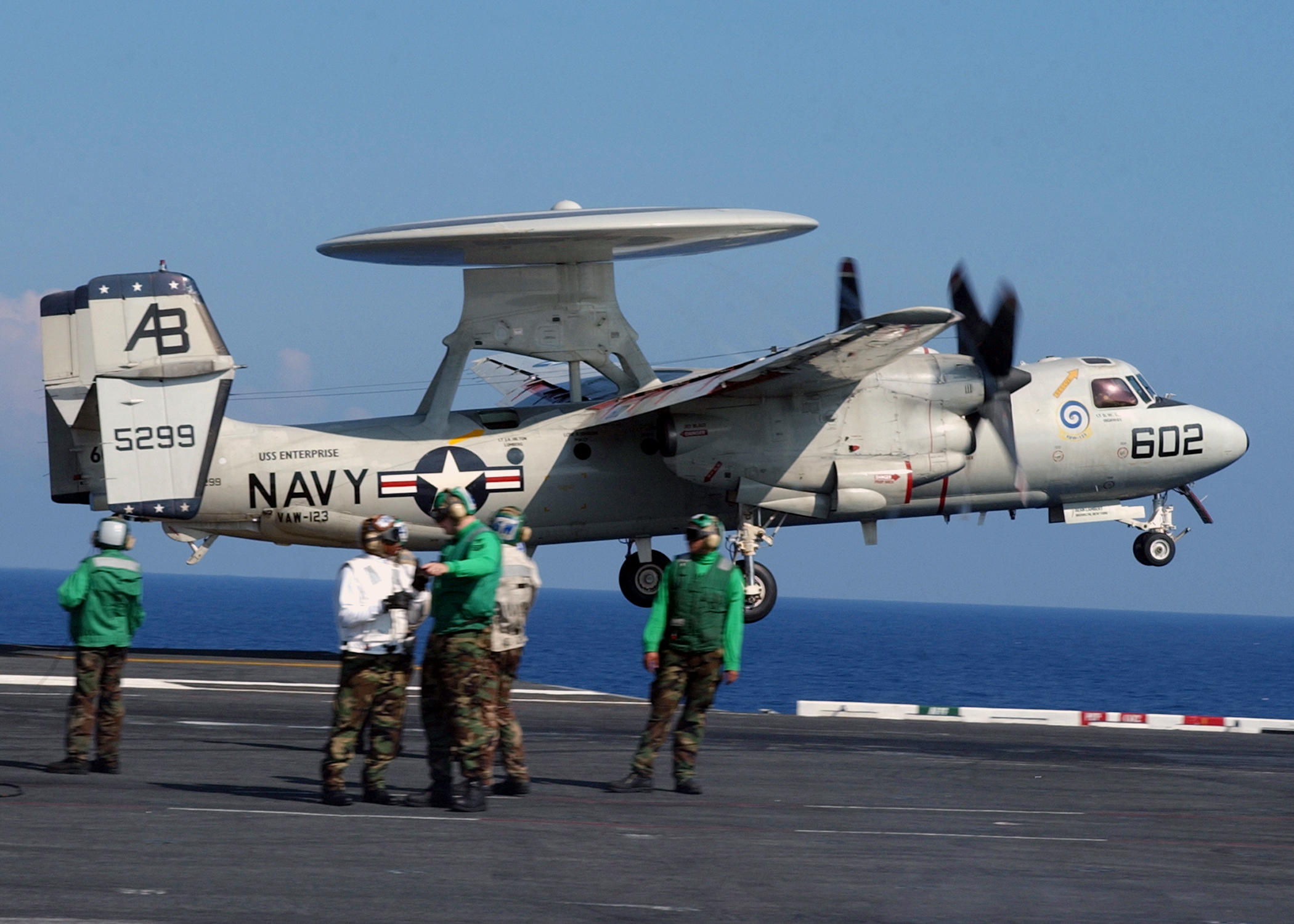 Atlantic Ocean (Sep. 2, 2003) -- An E-2C Hawkeye assigned to the “Screw Tops” of Carrier Airborne Early Warning Squadron One Twenty Three (VAW-123) launches from one of four steam powered catapults aboard USS Enterprise (CVN 65). The nuclear-powered aircraft carrier is underway in the Atlantic Ocean, completing her Tailored Ships Training Availability (TSTA) in preparation for a Mediterranean Deployment. U.S. Navy photo by Photographer's Mate Airman Jason W. Pfiester. (RELEASED)